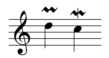 short trill notation